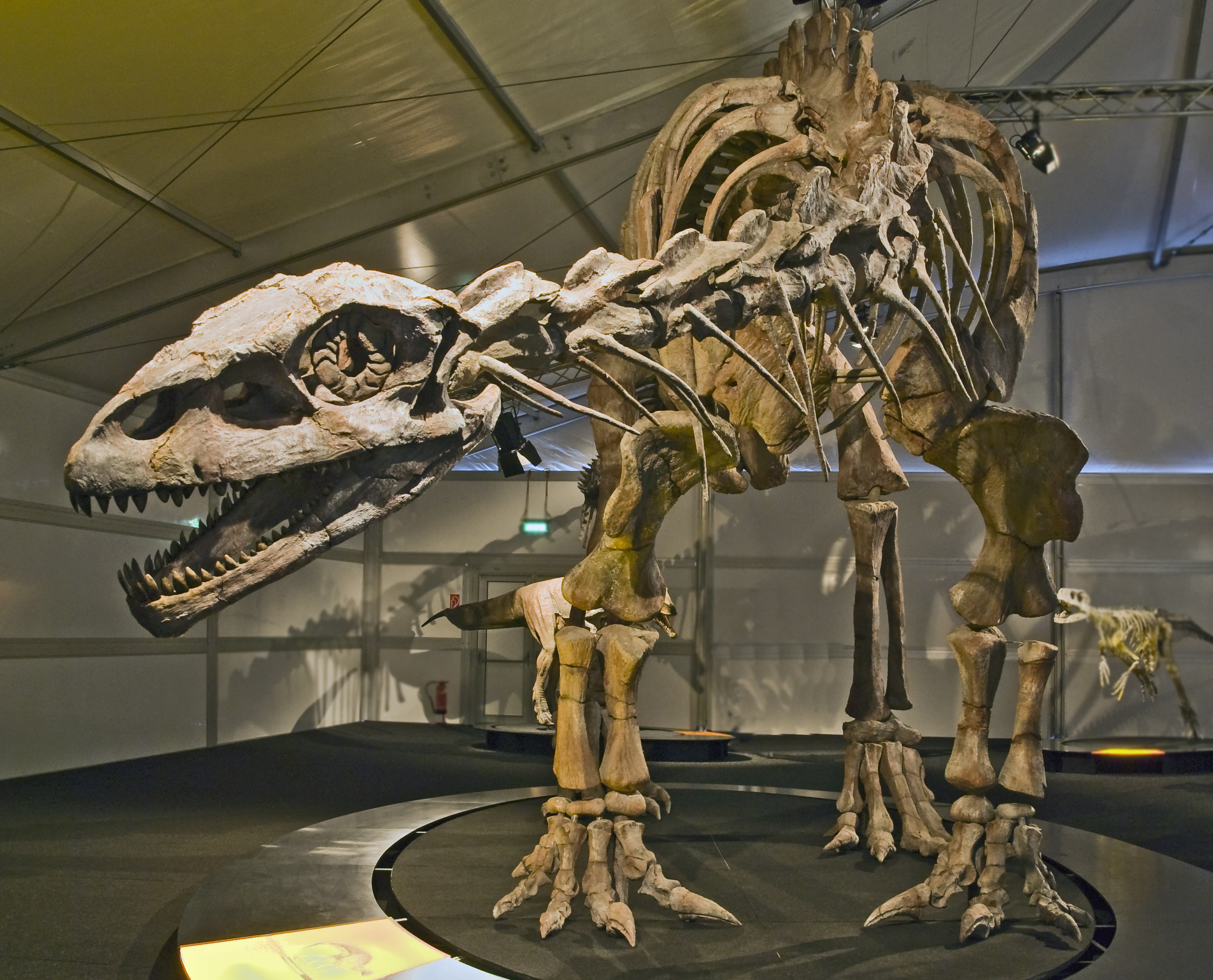 Copy of a skeleton of a Lessemsaurus in the exhibition "Gigasaurier - Die Riesen Argentiniens" in Frankfurt am Main 2010